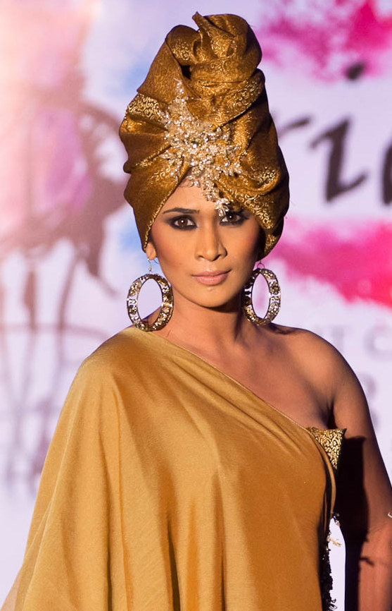 Photo of Anarkali Arkarsha modeling at a Charity Fashion Show.